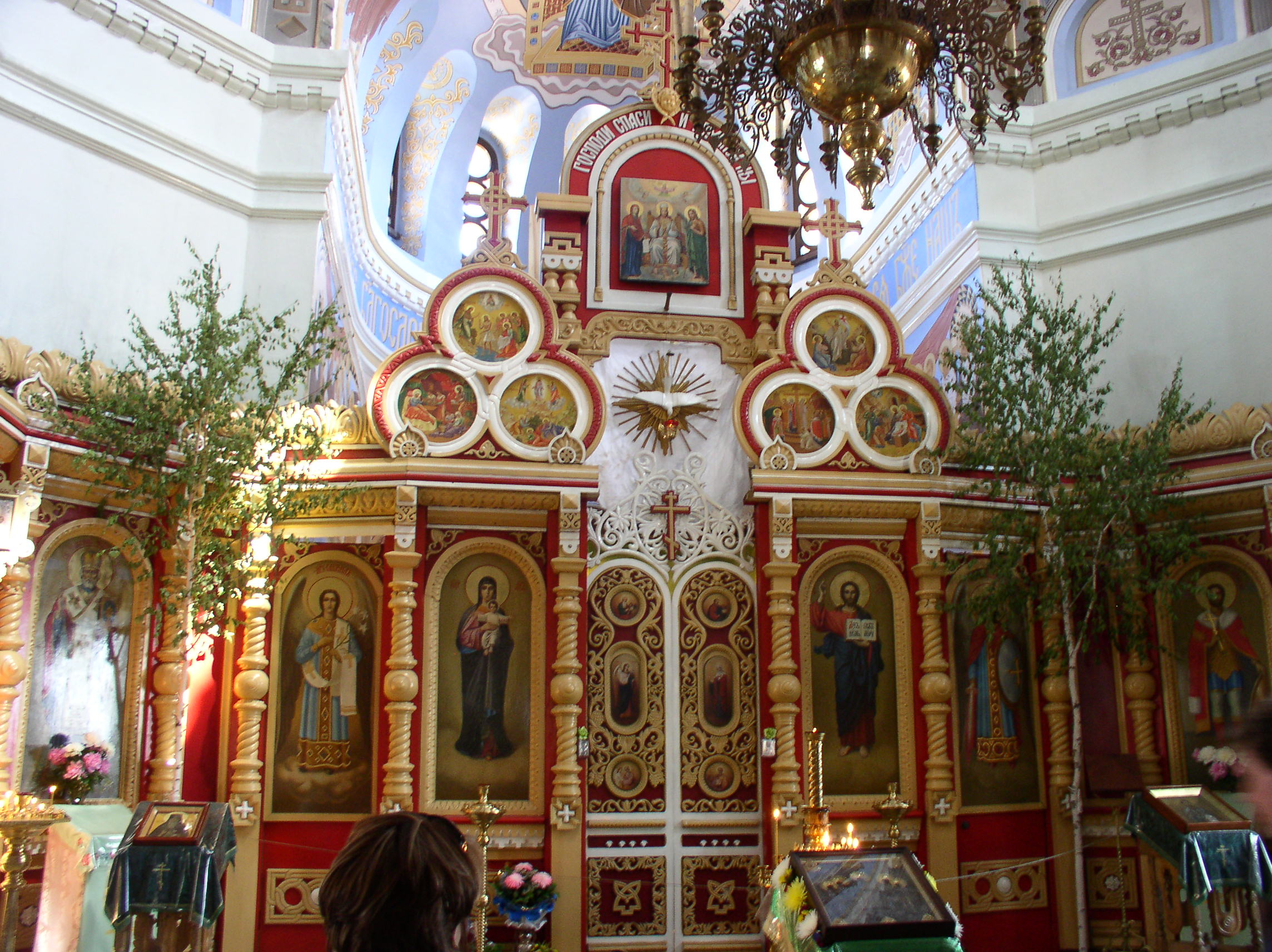 Alexander Nevsky Cathedral in Novosibirsk